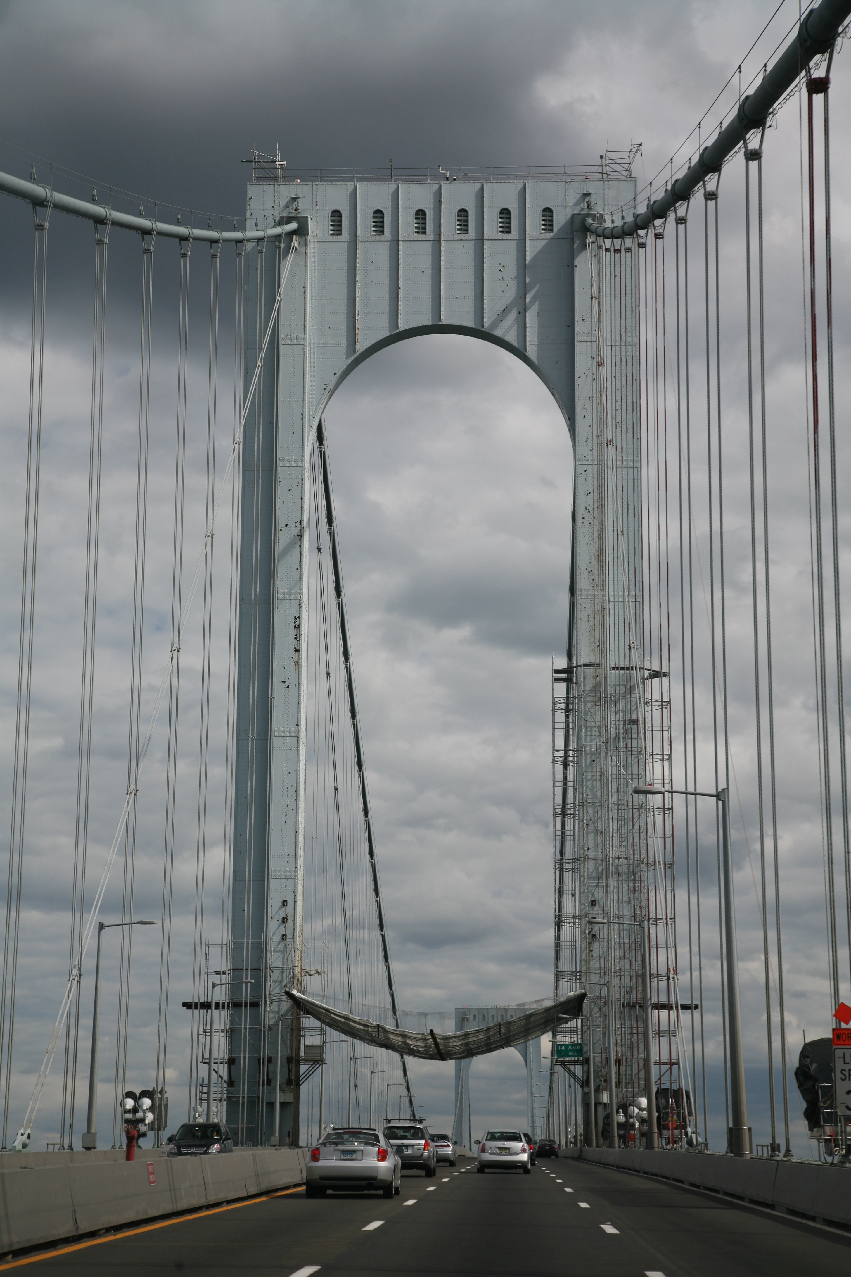 Whitestone Bridge, connecting the Bronx with Queens